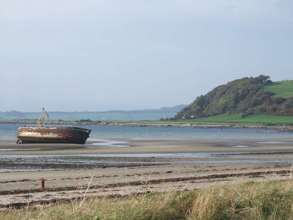 Wrecked ship on Ettrick Bay